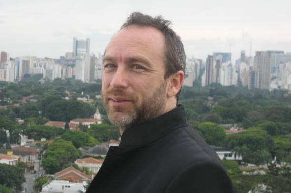 Jimmy Wales in front of São Paulo's skyline (Brazil)